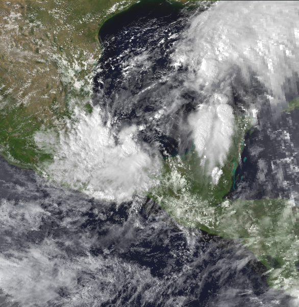 Tropical Depression Eleven of the 1999 Atlantic hurricane season shortly after classification at 2147 UTC on October 4, 1999 in the Bay of Campeche. Though not a strong producer of wind or storm surge unlike most hurricanes, the heavy rains caused torrential rainfall in Mexico for days, resulting in at least 636 deaths and $1 billion in damages.